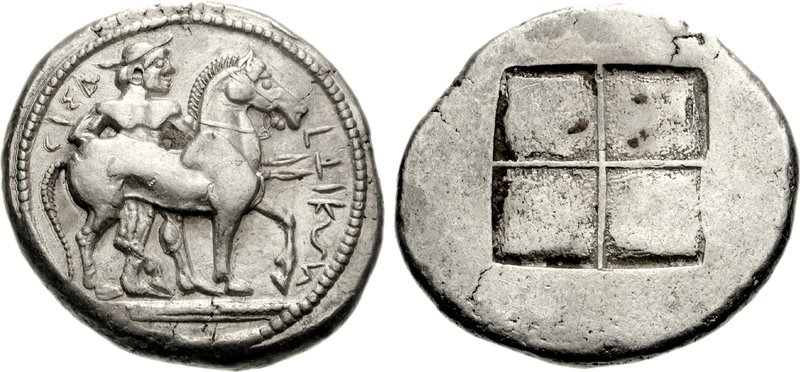 Ancient Greek coin of Bisaltia Circa 475-465 BC. AR Oktadrachm (28.68 g)